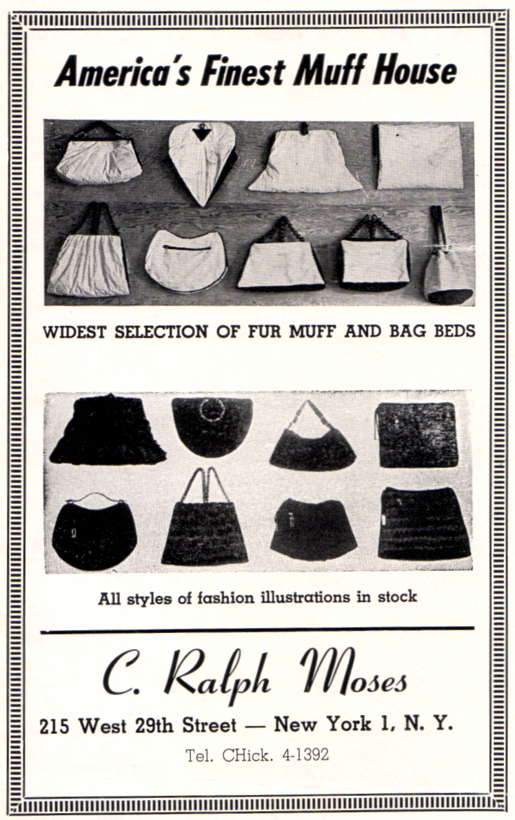 Muff manufacturer C. Ralph Moses, 215 West 29th Street, New York 1, N. Y. Americas Finest Muff House. Widest selection of fur muff and bag beds All styles of fashion illustrations in stock American Furrier and Sol Vogel, February, 1949, page 32